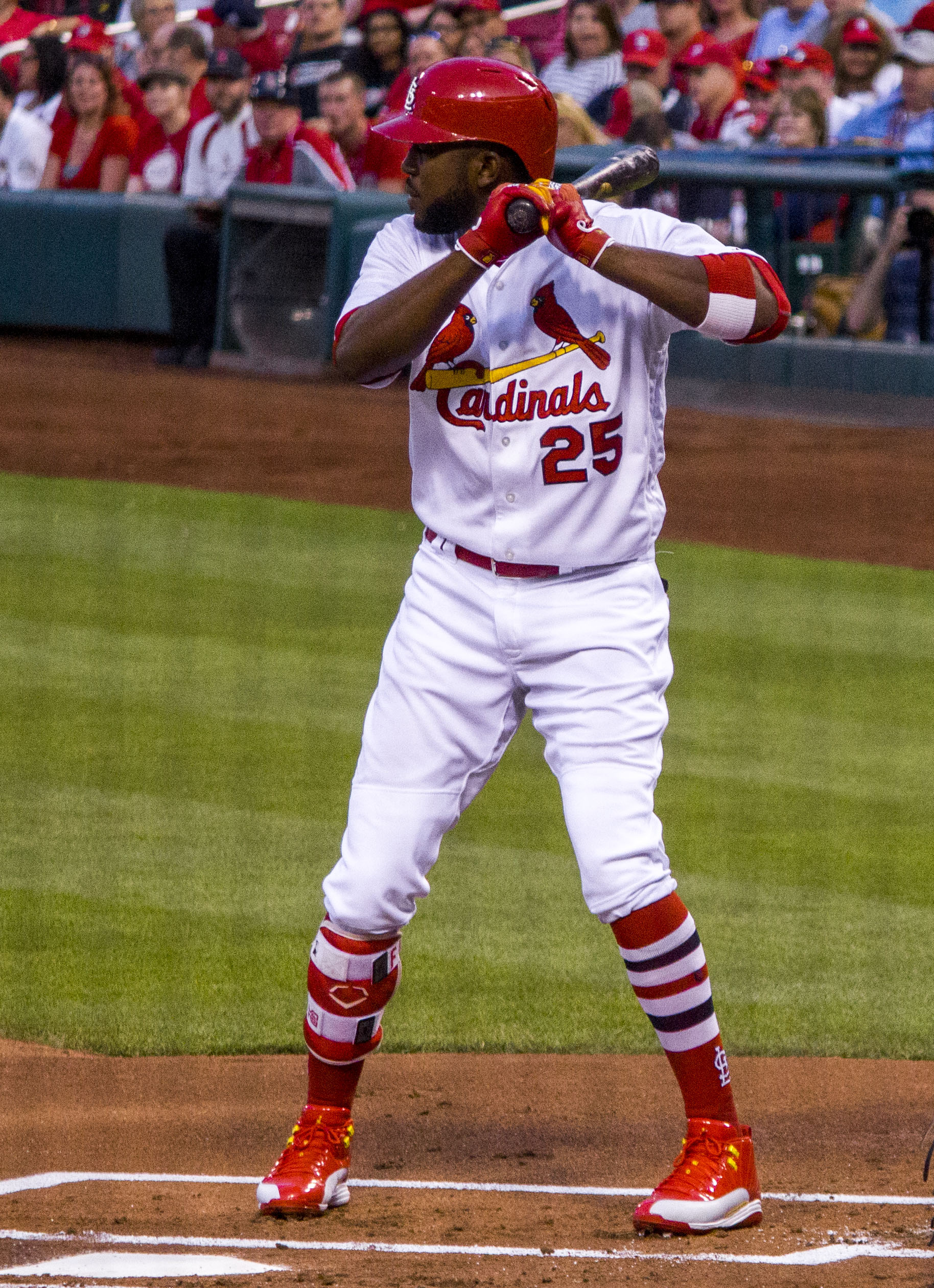 Cardinals Outfielder Dexter Fowler.